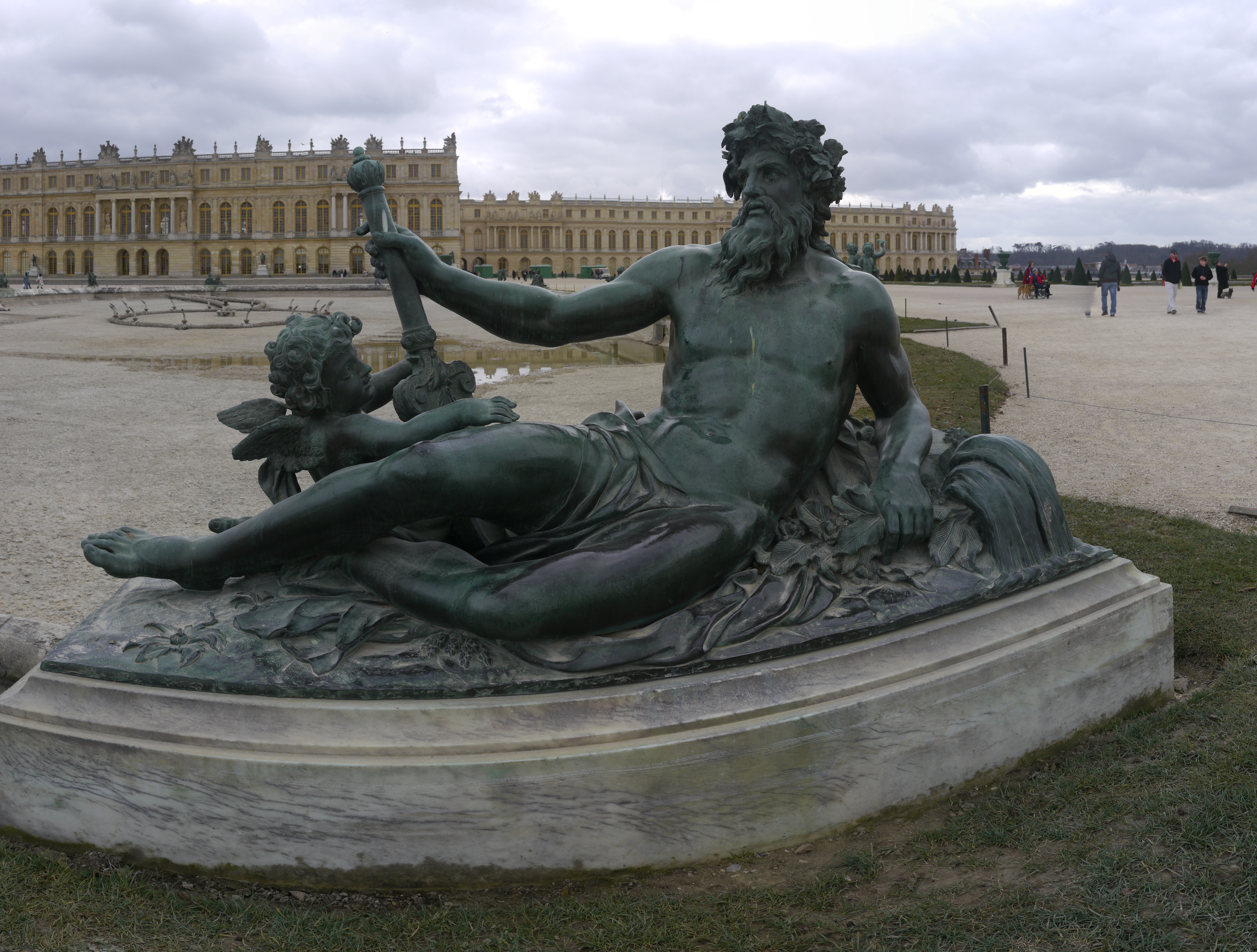 Le Rhone - Statue of the Parterre d'Eau (bassin du Midi) of the Château de Versailles in France.